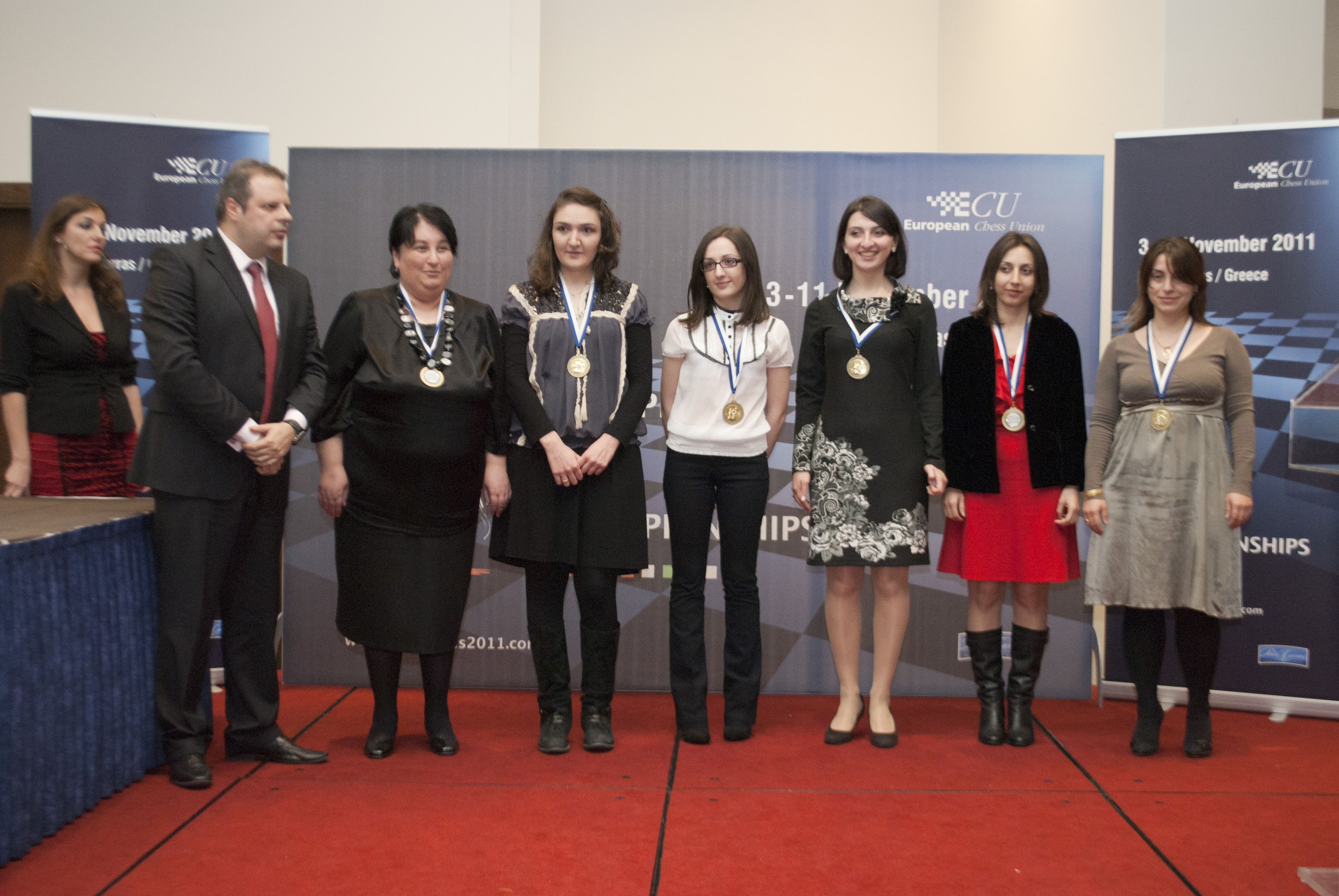 Porto Carras EchT 2011 - bronze medal for Georgian women's team.